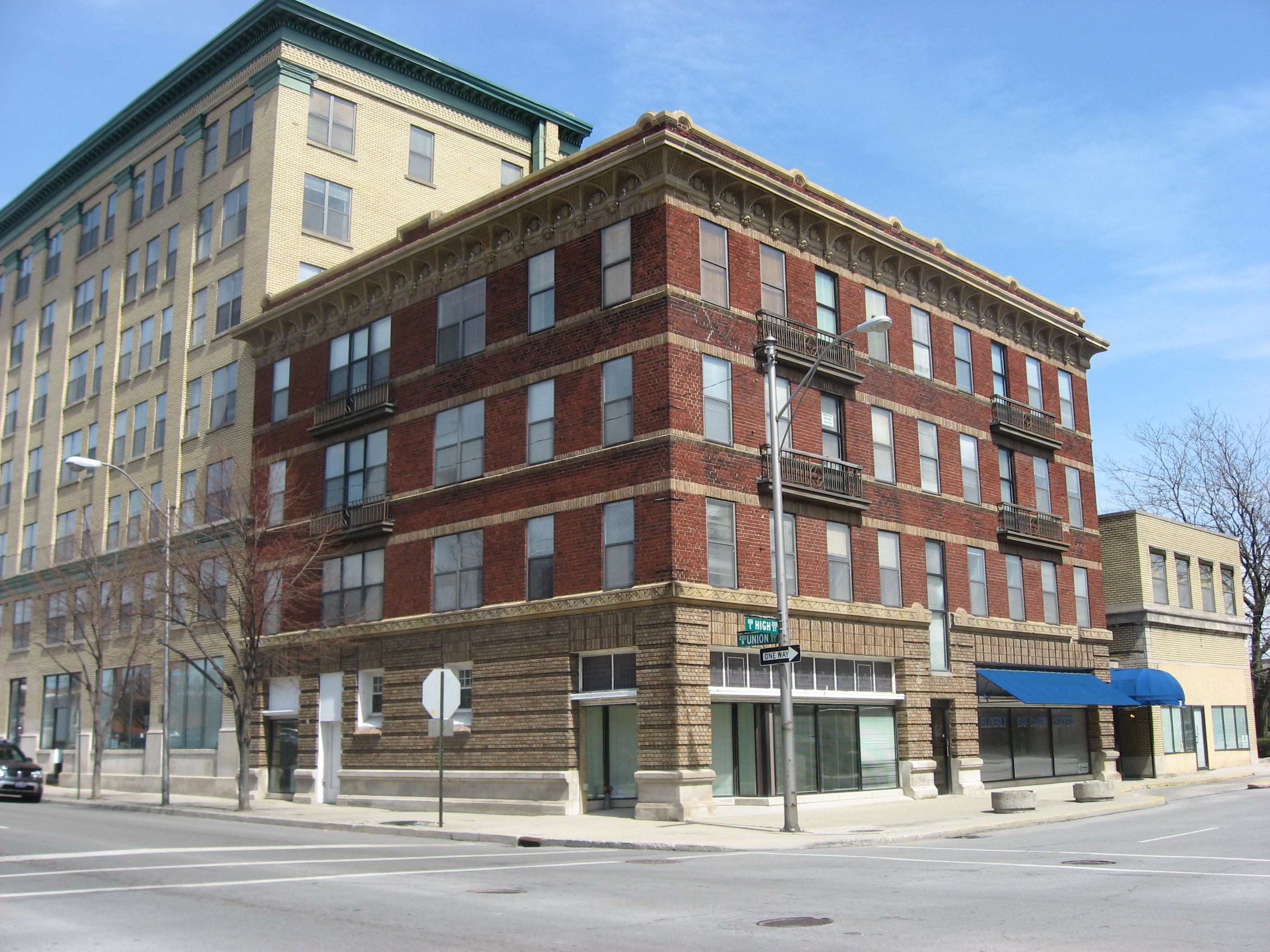 Front and side of the Barr Hotel, located at the intersection of High and Union Streets in downtown Lima, Ohio, United States. Built in 1914, the Classical Revival former hotel is listed on the National Register of Historic Places.